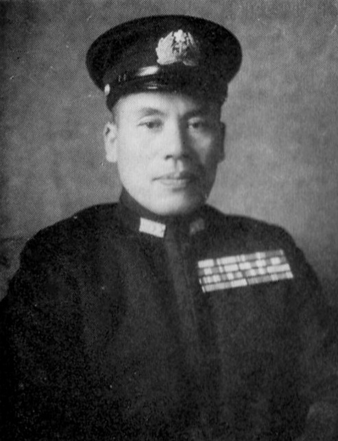 Hoshina Zenshirō is an Imperial Japanese Navy Vice Admiral